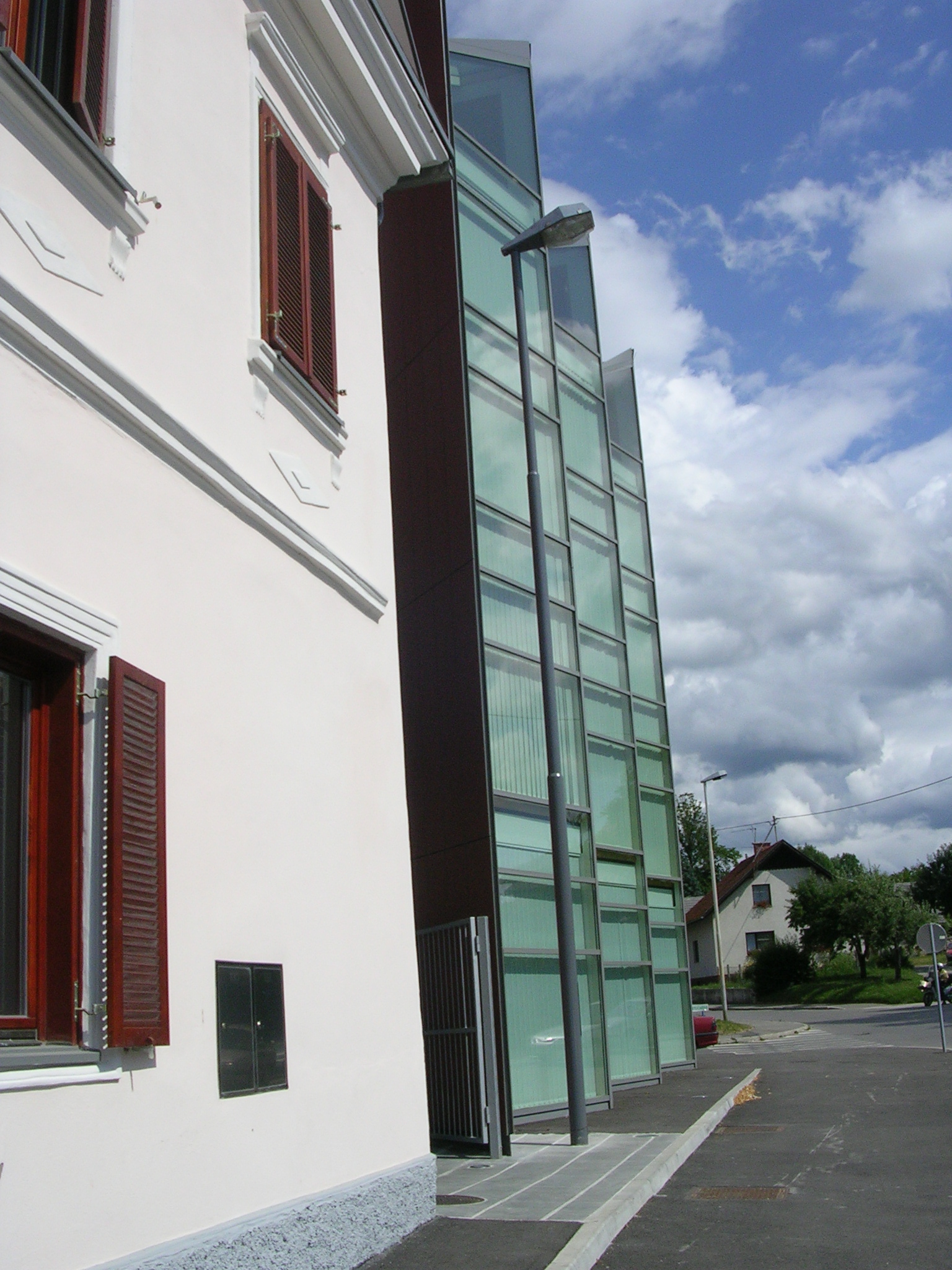 Grosuplje town library